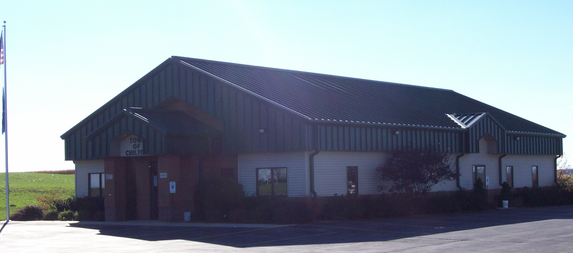 The town hall for the Chilton (town), Wisconsin (the township, not the city) in Calumet County, Wisconsin, USA. Townships are politically independent of cities in Wisconsin. Cropped from the original.